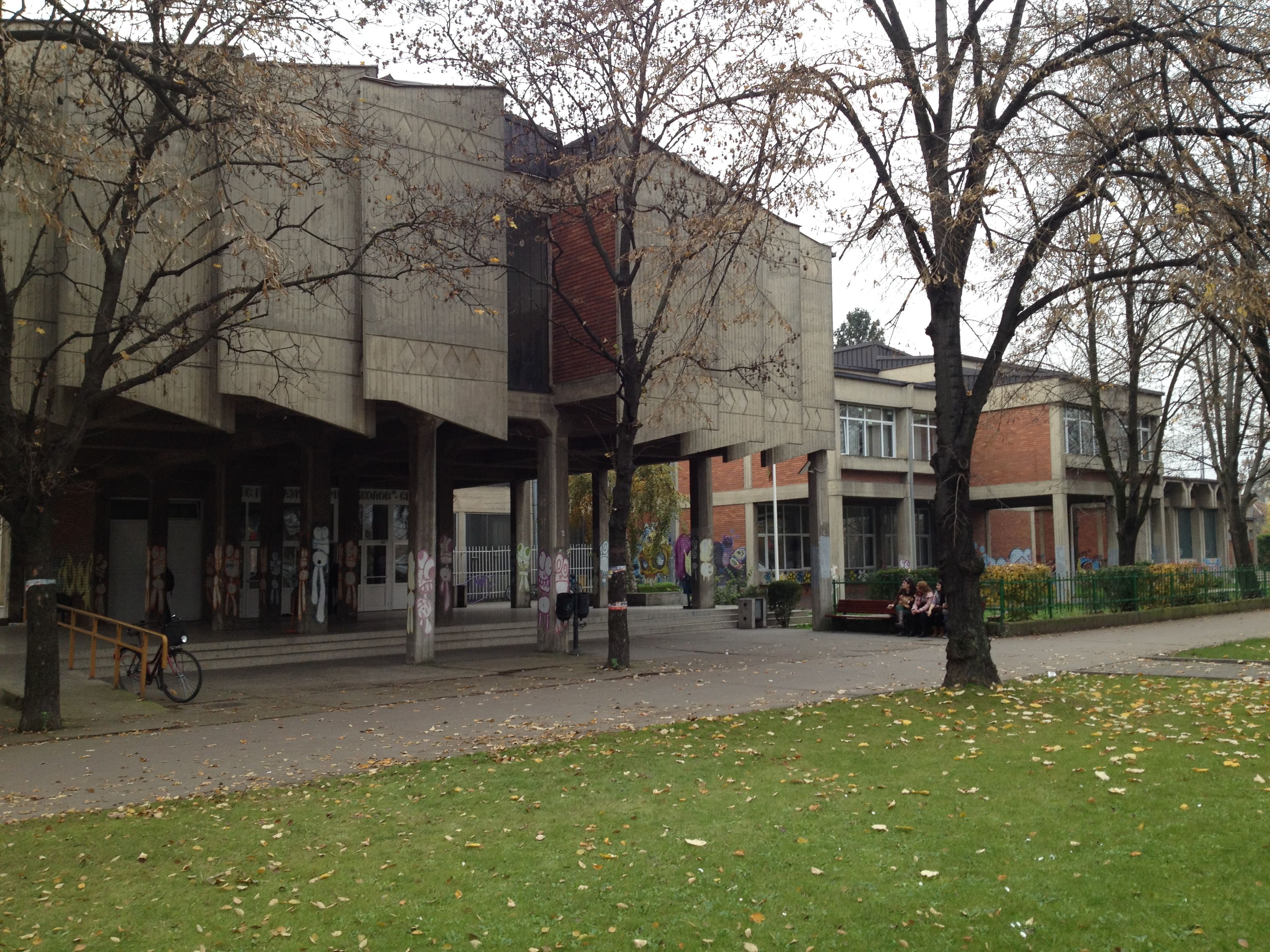 gymnasium in Skopje, Republic of Macedonia